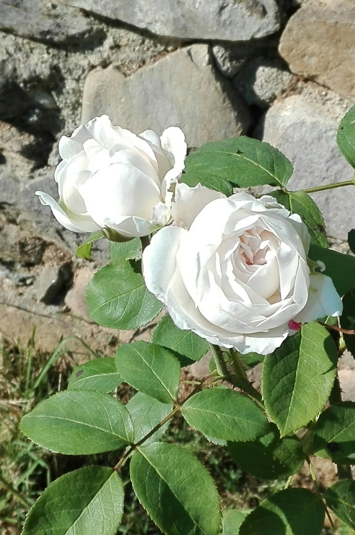 "Winchester Cathedral" (D. Austin 1988, Auscat)